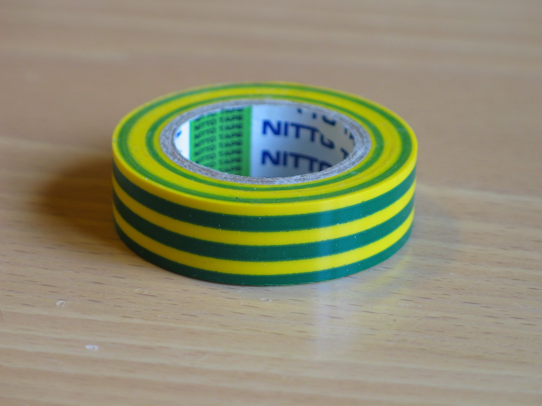 Electrical tape (green-yellow).